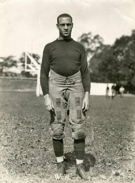 Image of Charles Pruner West